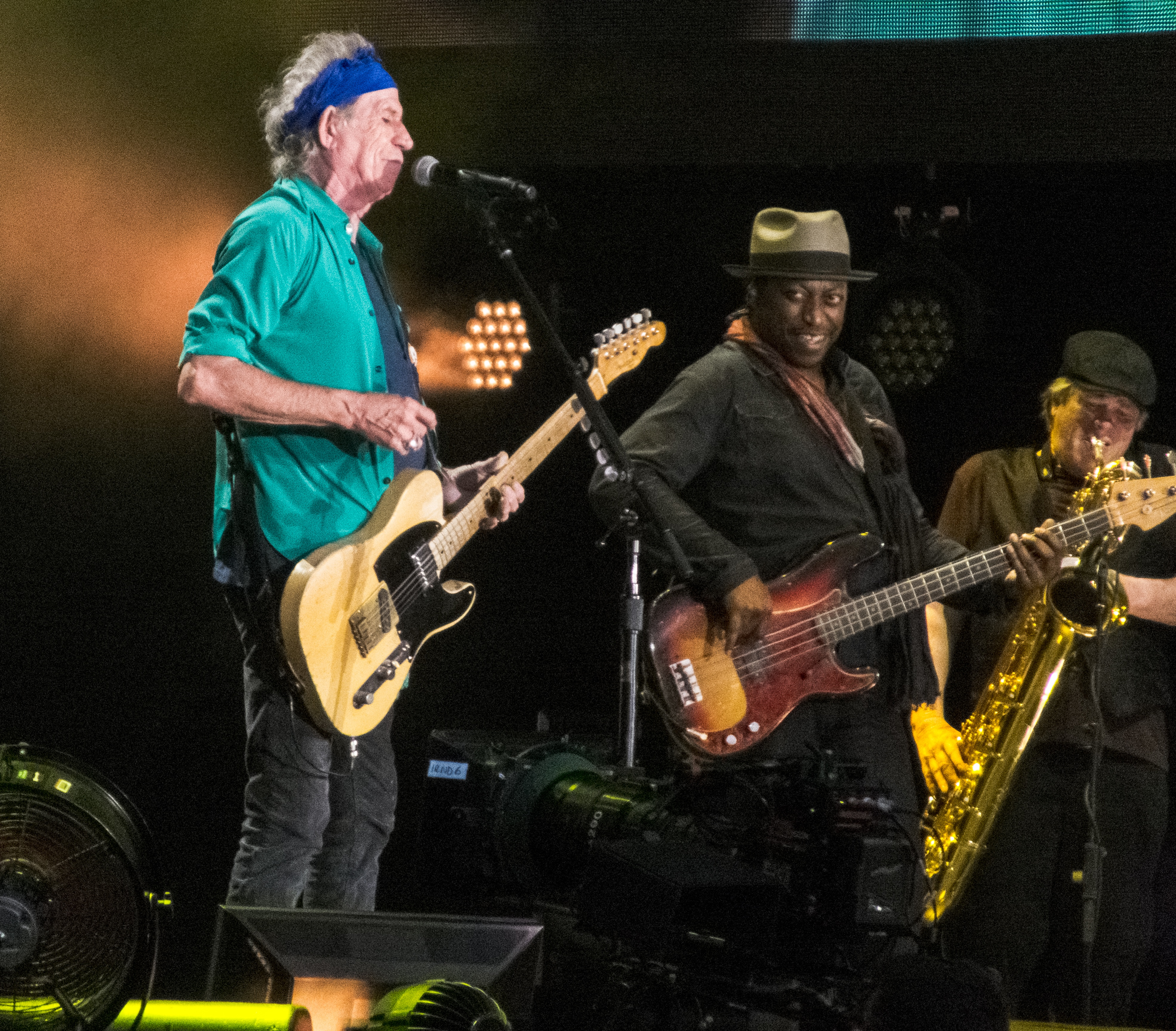 Keith Richards (left) from the Rolling Stones with bass player Darryl Jones and sax player Bobby Keys at British Summer Time Festival in Hyde Park during a Rolling Stones concert, July 6, 2013